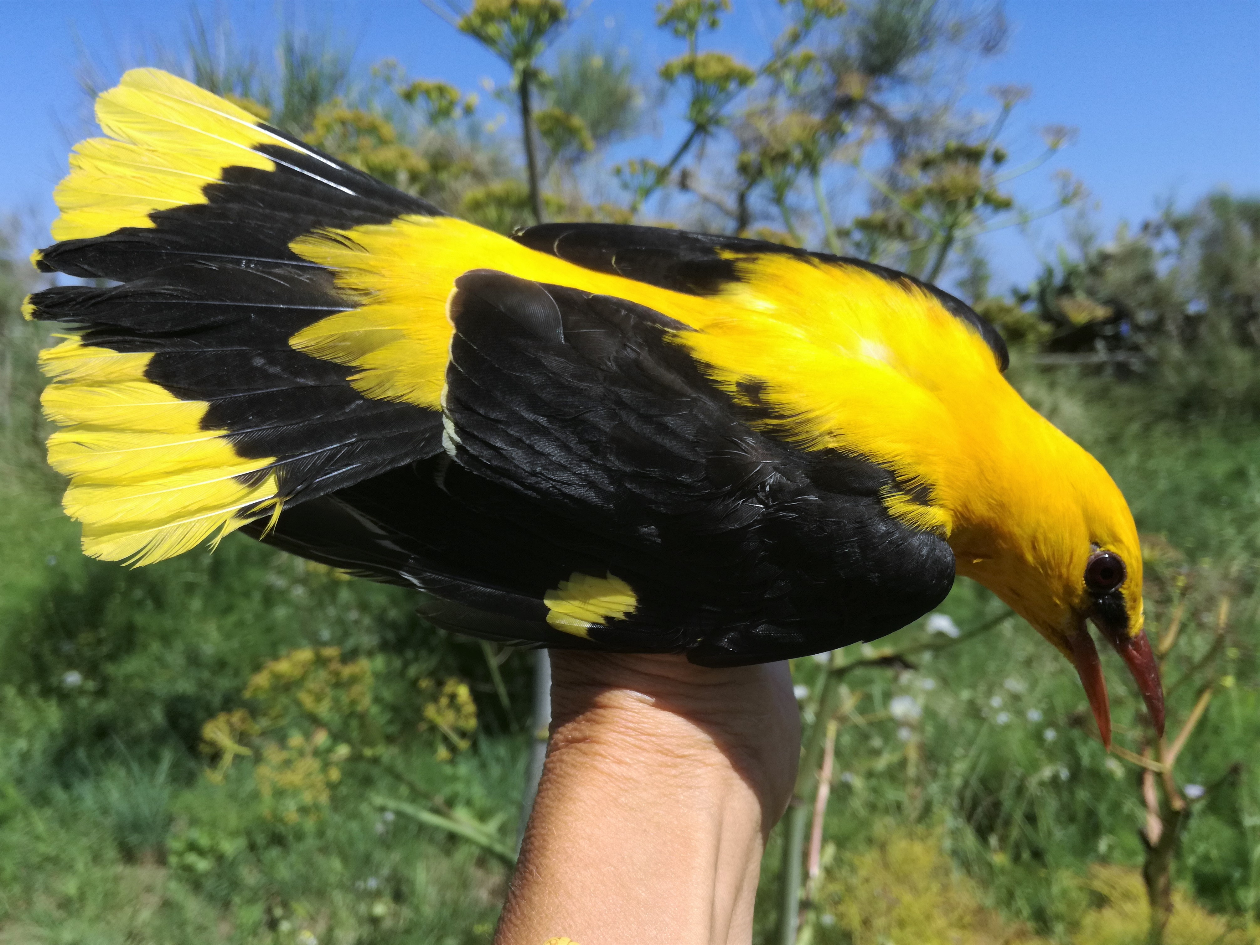 Rigogolo (Oriolus oriolus) which has just been ringed/banded at the Island of Ventotene, Italy